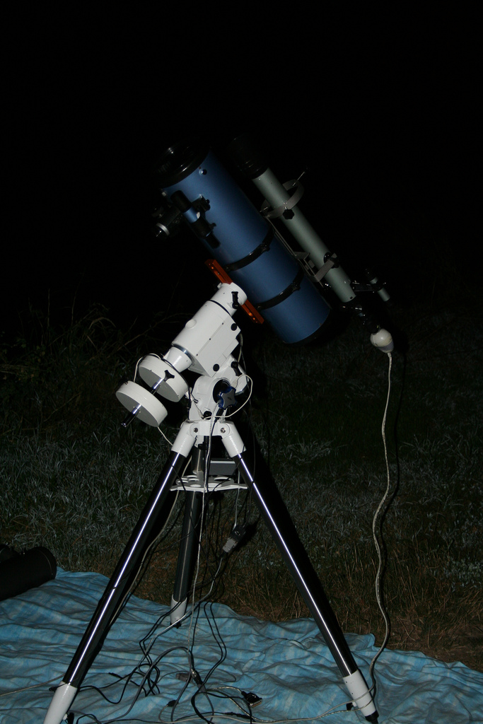 Montatura: Skywatcher HEQ5 Syntrek EQDIR per GOTO e autoguida Tubi: Skywatcher Newton 150/750 f5 Rifrattore 60/700 f12 Camere di Ripresa: Canon EOS 350D Philips Vesta PRO Sc1 Philips SPC900NC Sc1 Philips SPC 900NC Notebook: Dell D505